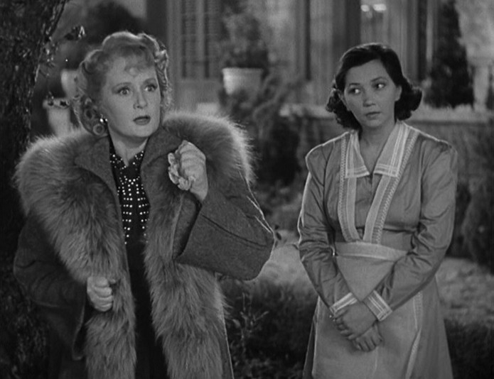 Cropped screenshot of Billie Burke and Patsy Kelly from the film Topper Returns (1941).